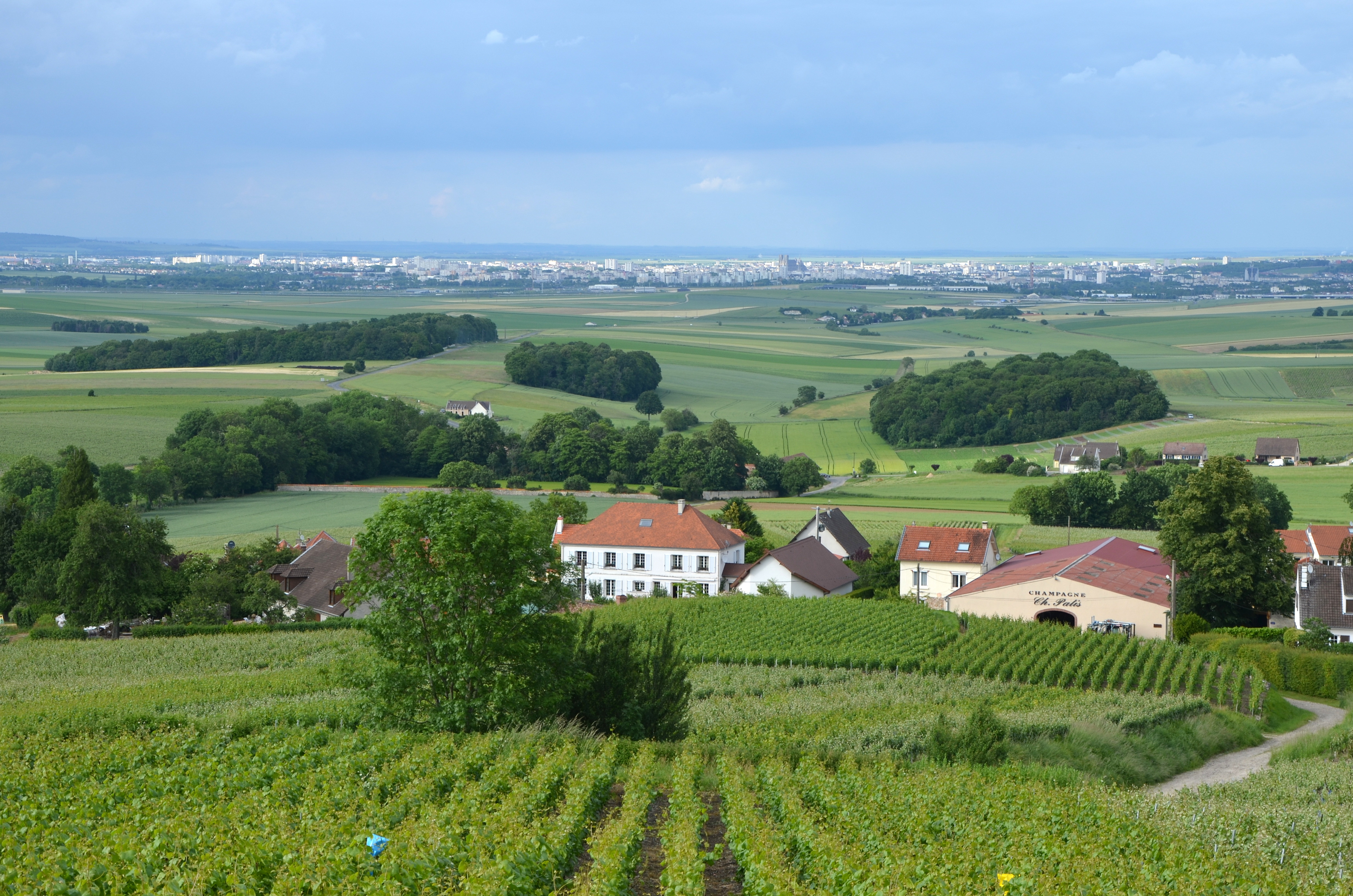 Vineyards of Champagne and the city of Reims, Marne, France